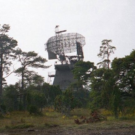 Swedish Airforce radar station on the island Furillen east of Gotland.